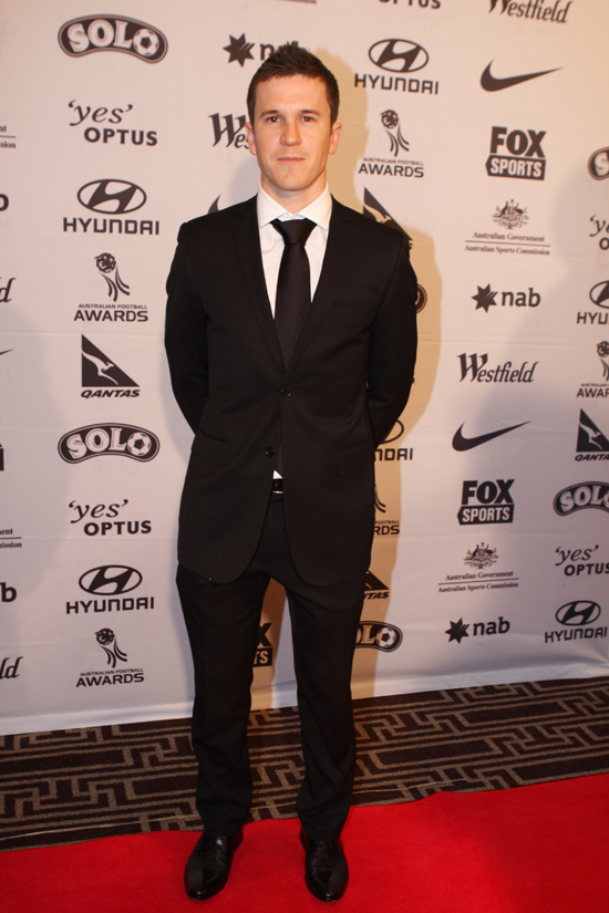 Matt McKay at Australian Football Awards 2011